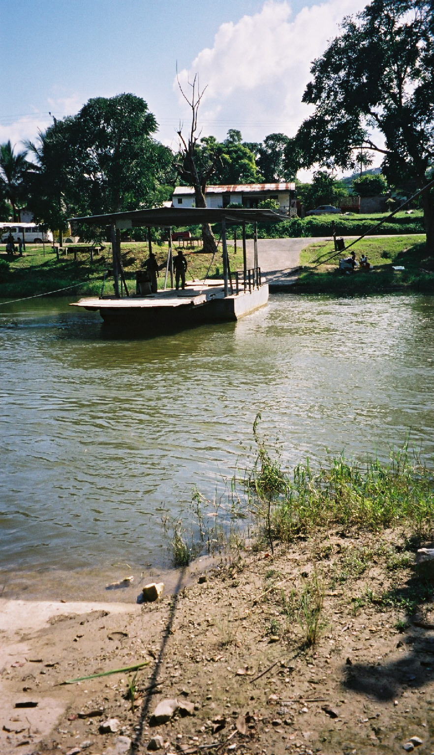 Mopan River Ferry in Belize. Hand cranked ferry.